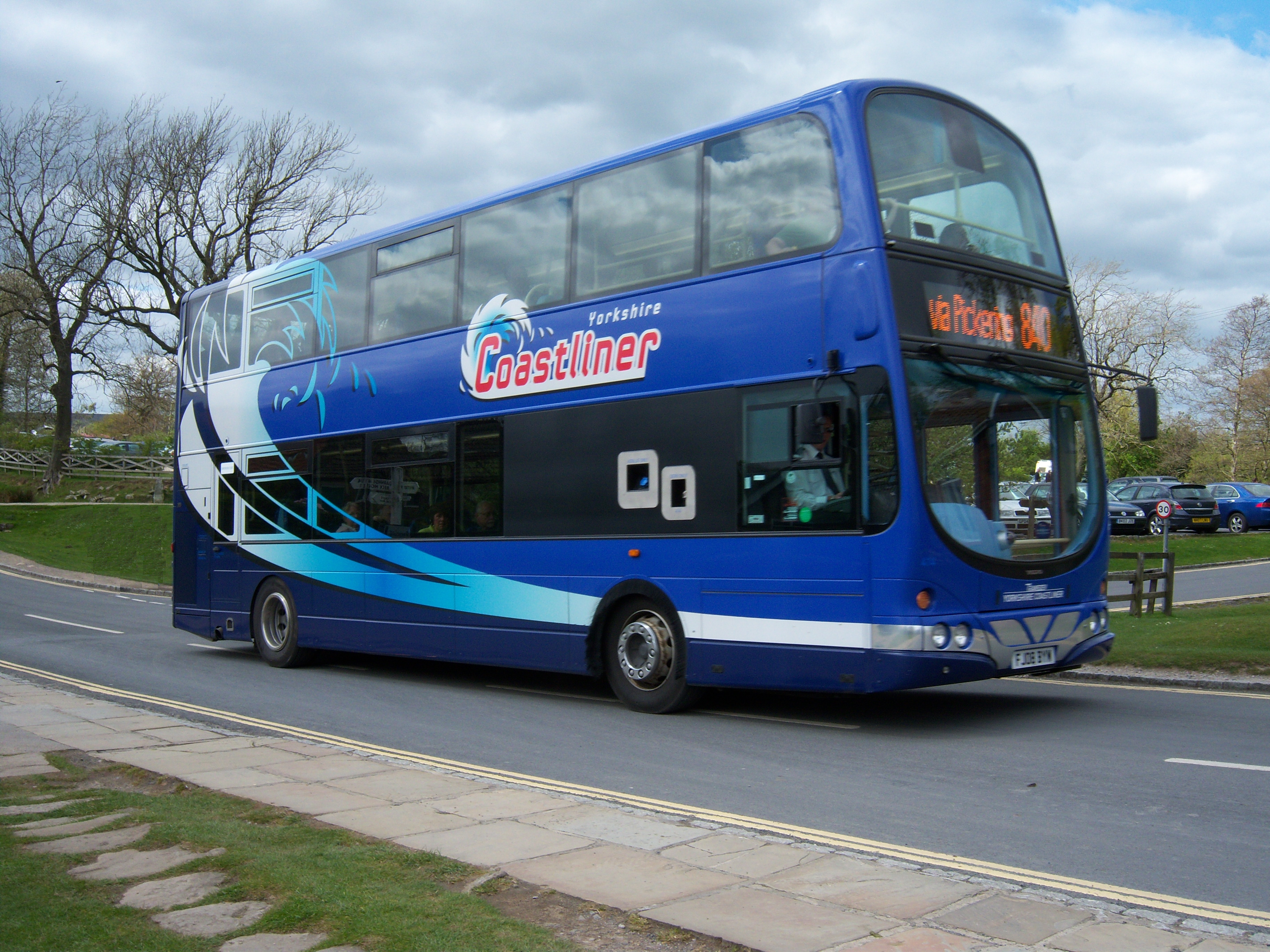 FJ08 BY?, probably W, but the delivered series also includes M and V.